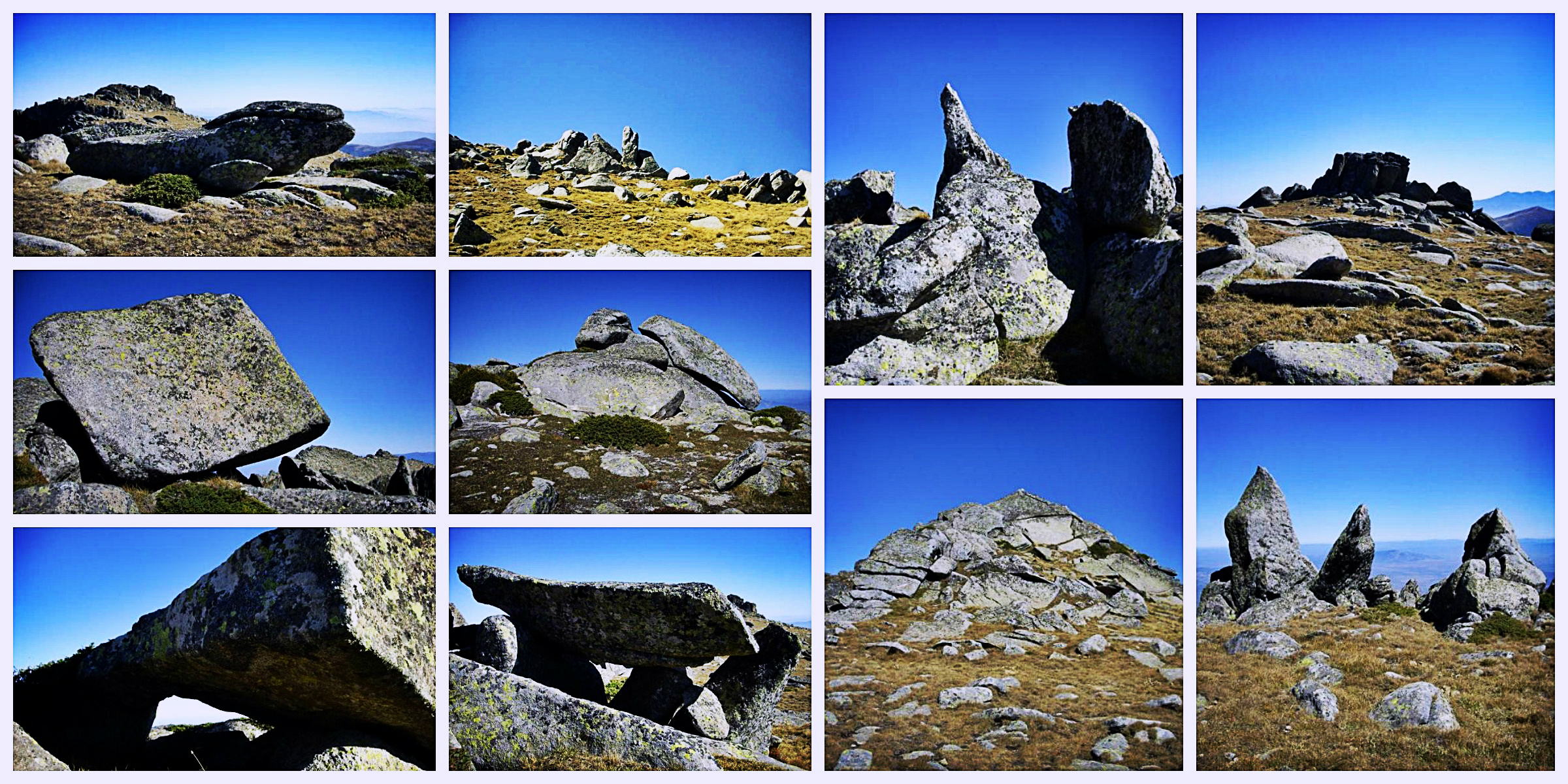 Kalin peak Sanctuary Rila mountain BG